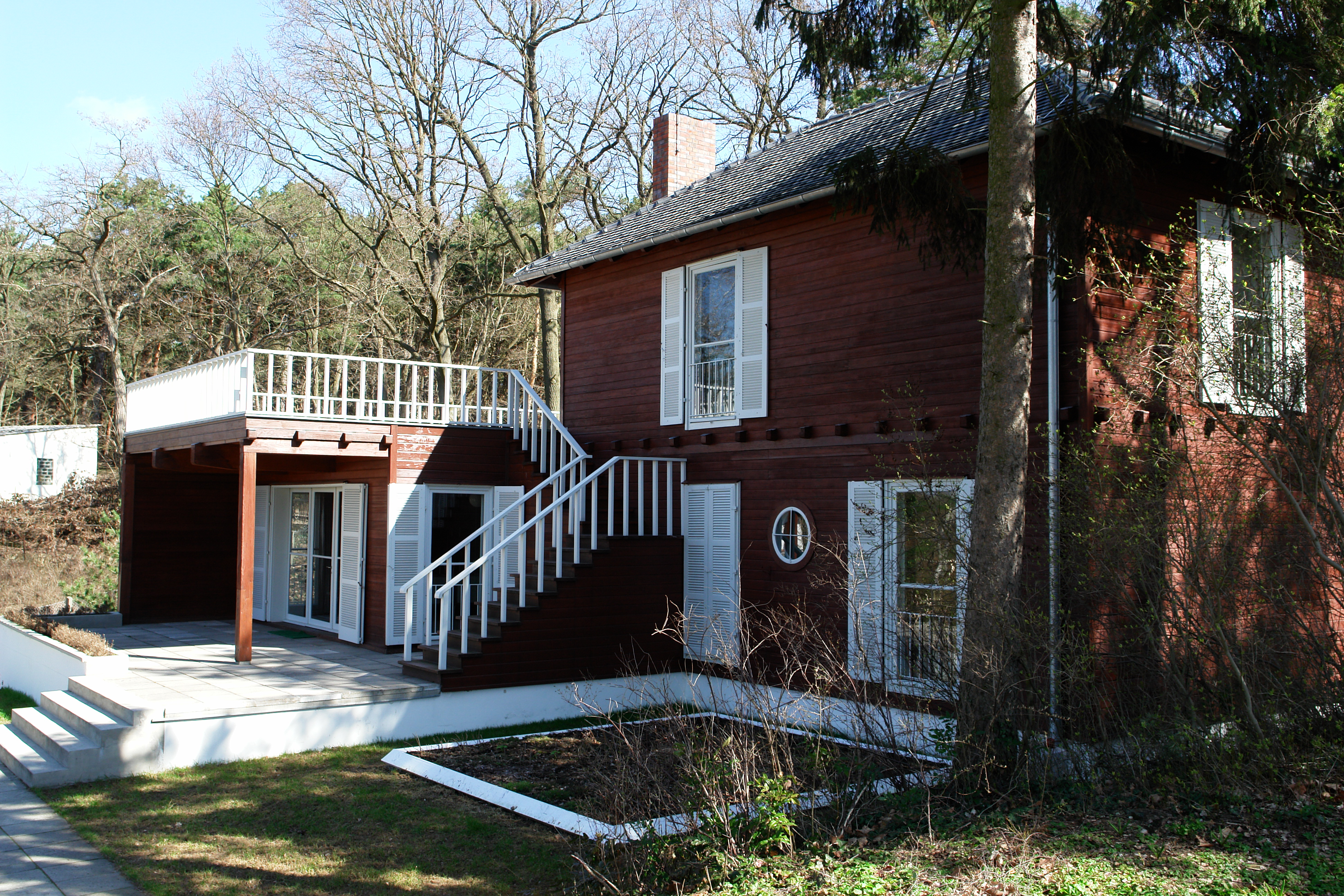 Albert Einstein's residence in Caputh, near Potsdam, Germany.